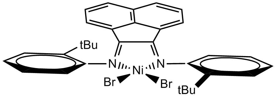 Ni catalyst used to promote chain walking polymerization reactions.